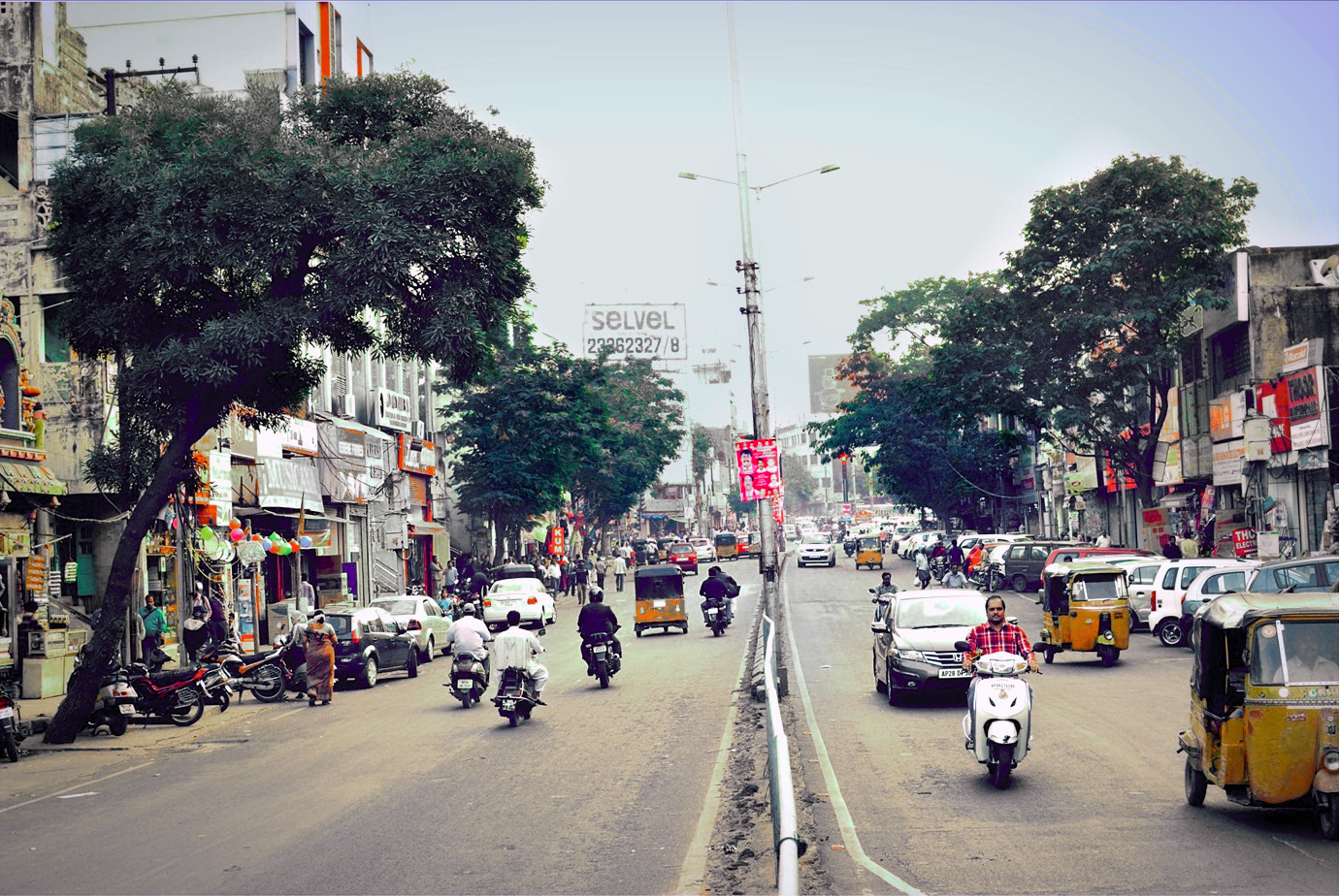 Light traffic on RP Road Secunderabad (once known as Kingsway)